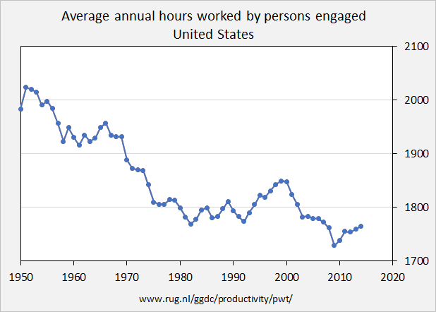 Average annual hours worked by persons engaged United States 1950-2014 from the Penn Table of the University of Groningen Growth and Development Centre.